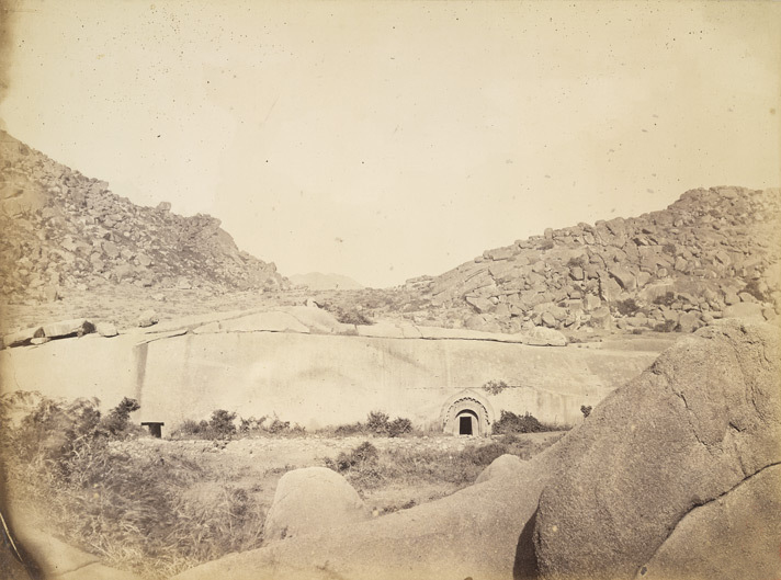 Sudama and Lomas Rishi Caves, part of Barabar Caves, Bihar, dating 250 BC. Author info